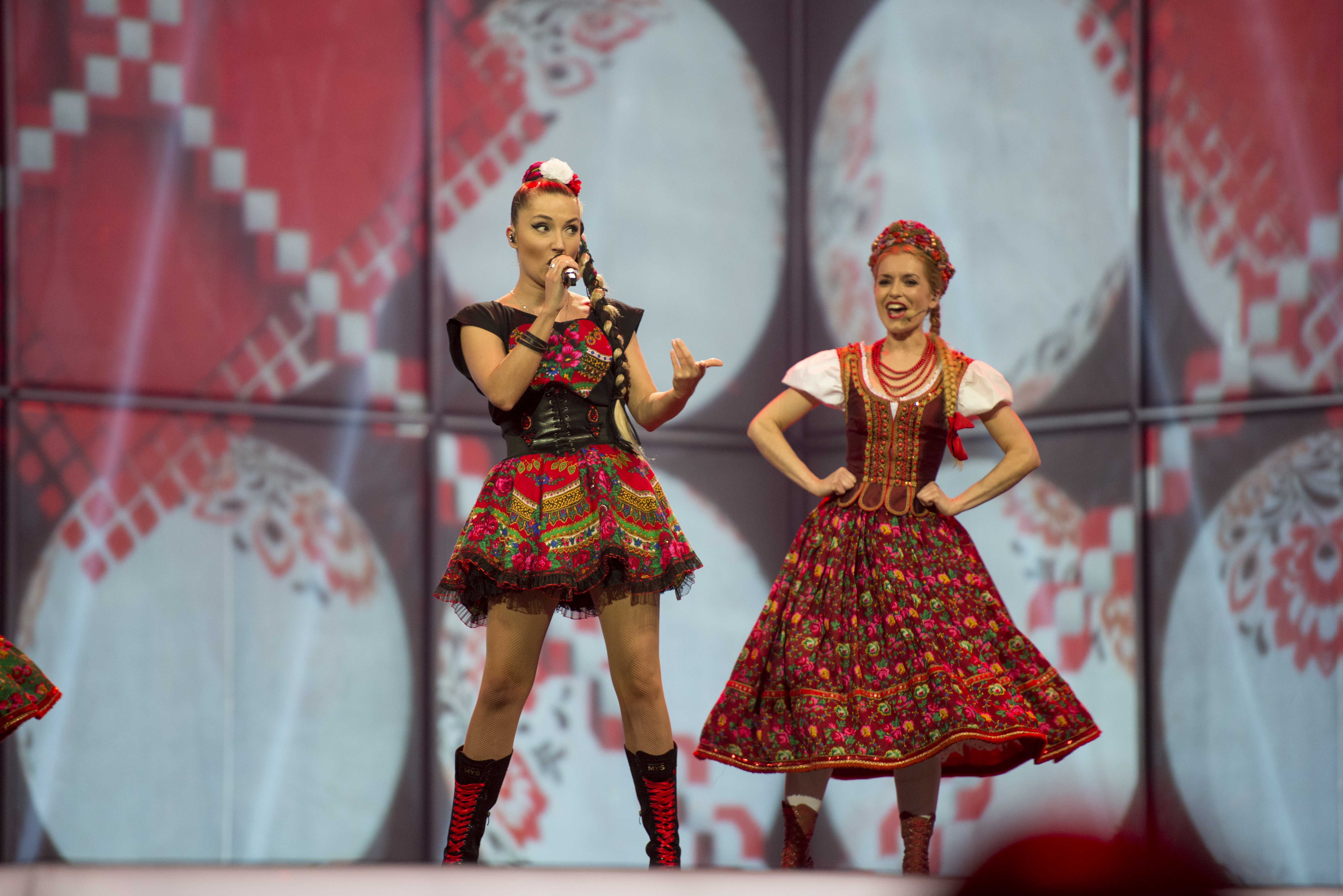 Donatan and Cleo representing Poland with the song "My Słowianie" during the first dress rehearsal of the second semi final of the Eurovision Song Contest 2014 Copenhagen. (Help translate this text)